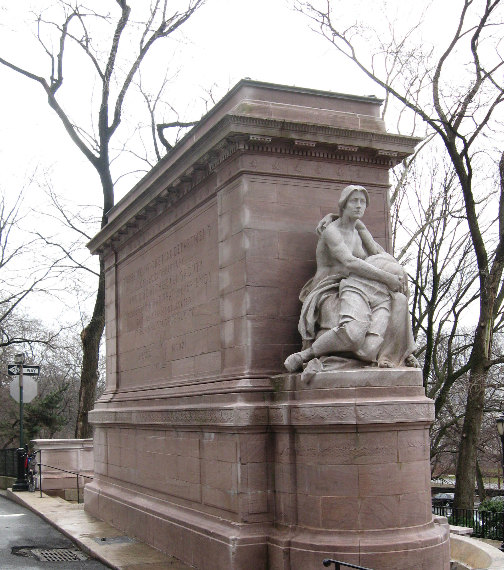 Looking south at Firemen's Memorial above Riverside Drive, Manhattan on a cloudy day